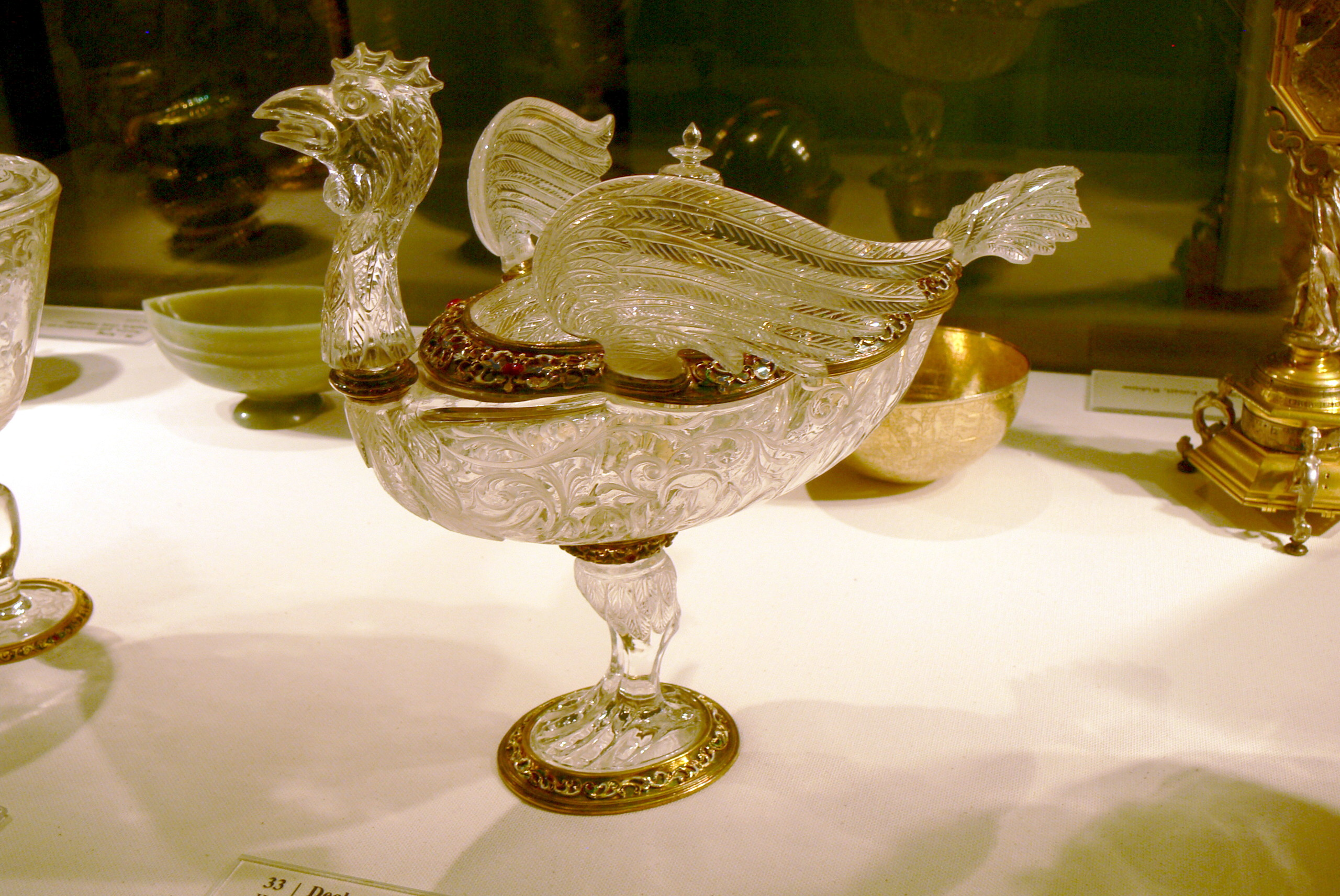 Vienna, Treasury of the German Order. So called "Raiger" - rock crystal goblet in form of a cock ( 16th century ) from Milan ( Inv.-Nr. G-029 ).